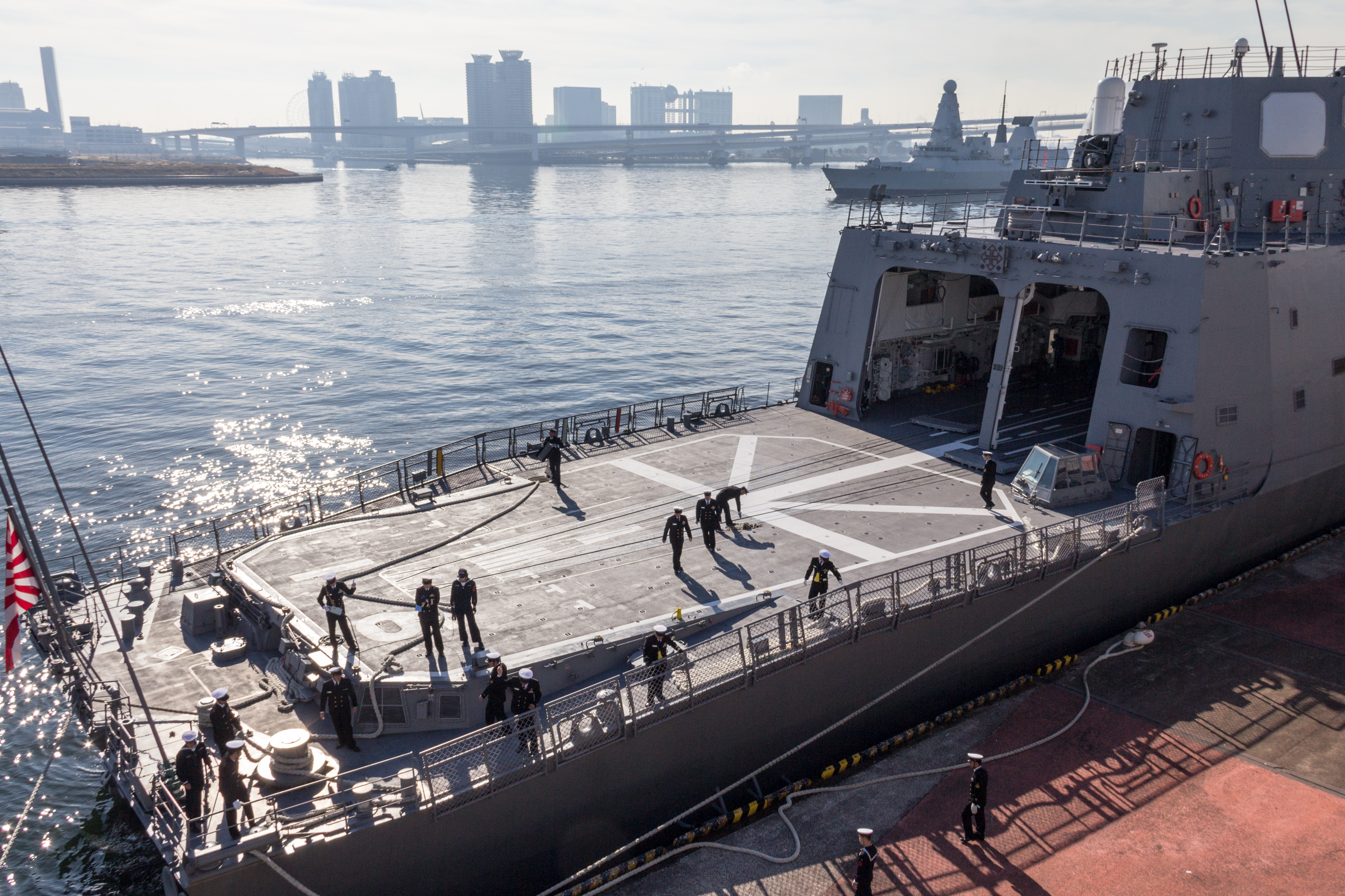 Flight deck on JDS DD-116 Teruzuki at Harumi-pier, Tokyo (2013 Dec 1)